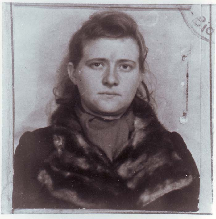 Image of former Israeli MP Haika Grossman in her youth (beginning of the 40's) in occupied Poland.